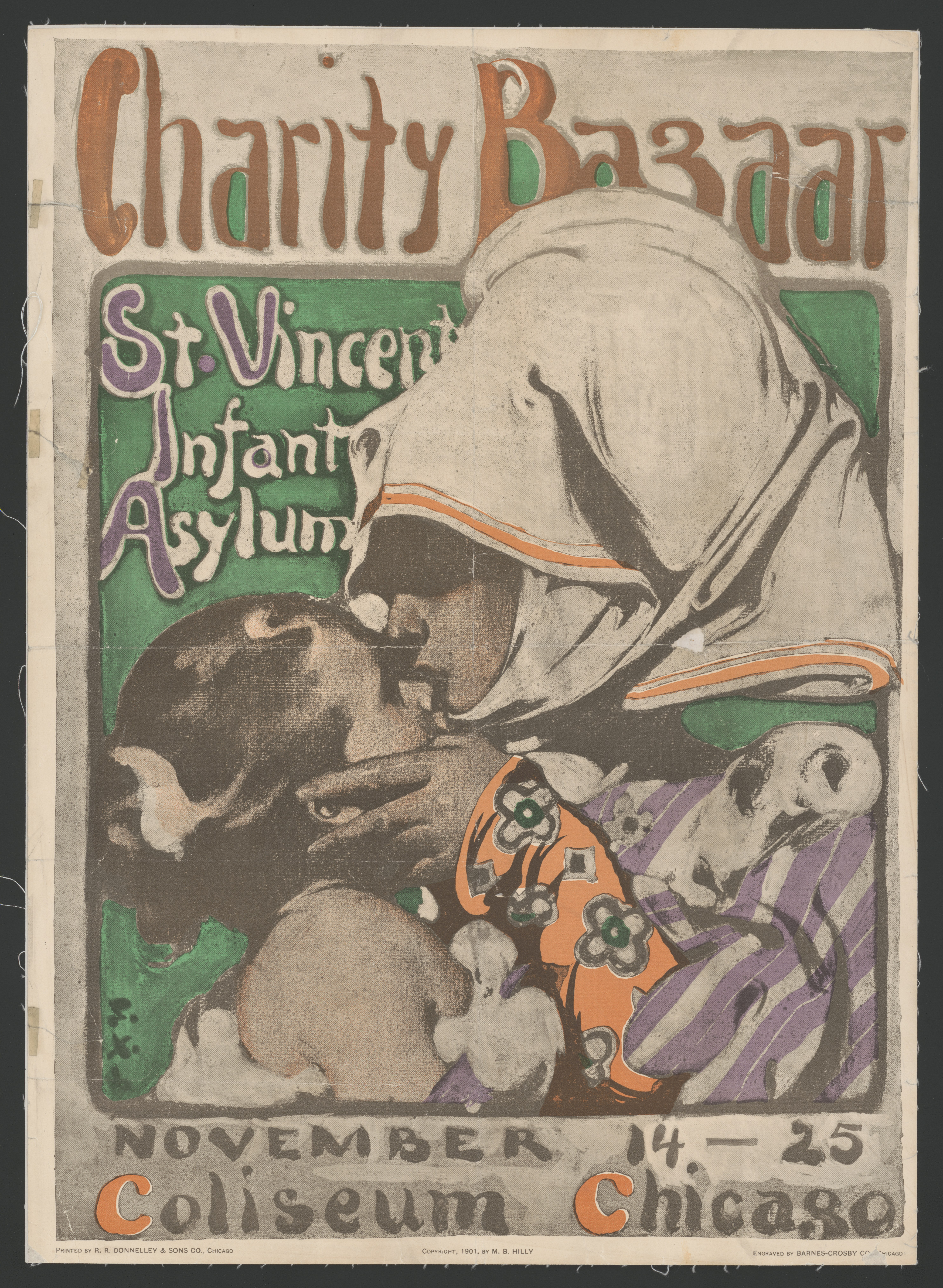 Title: Charity bazaar, St. Vincent infant asylum, November 14-25; Coliseum Chicago. Abstract/medium: 1 print : color ; sheet 50 x 36 cm (poster format)